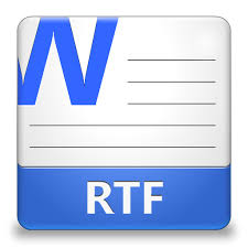 संपन्न पाठ्य प्रारूप का इकोन